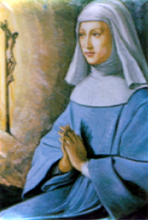 Devotional print with Venerated Marina de Escobar, end of 19th cent.